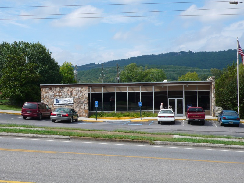 The U.S. Post Office in Trenton, Georgia